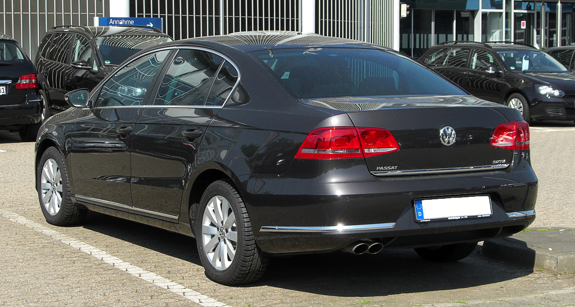 VW Passat 2.0 TDI BlueMotion Technology Comfortline (B7)